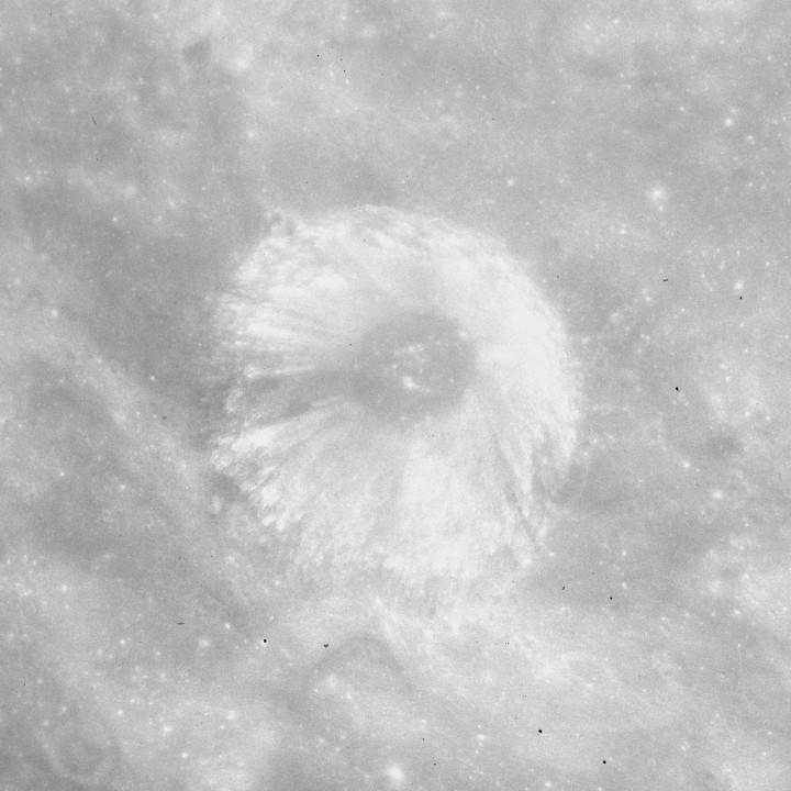 Glaisher, on the moon. North at top. From altitude 114 km, and high sun angle of 70 degrees.